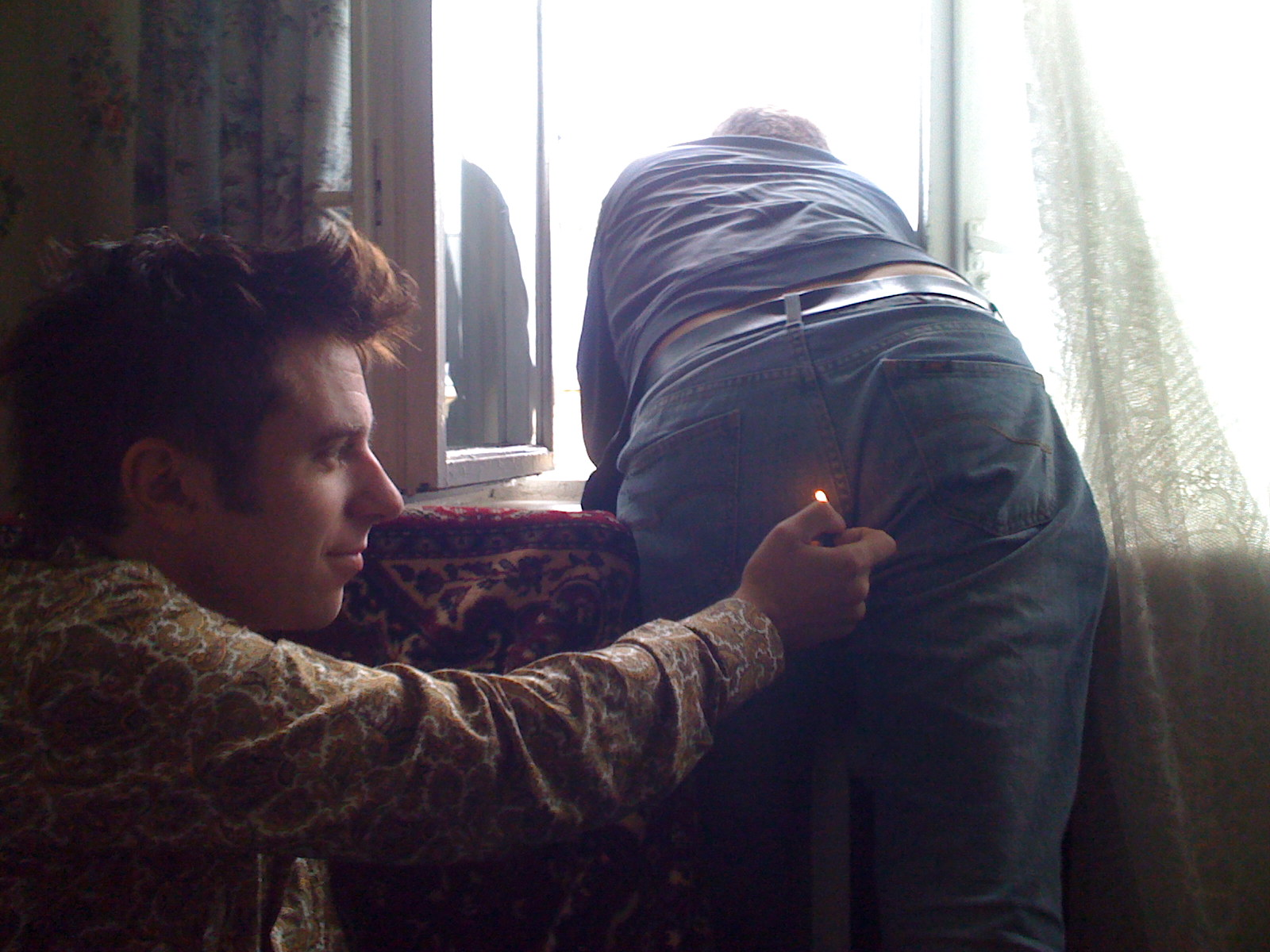 fart lighting in progress